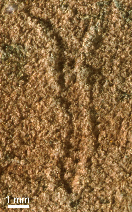 The flaring levees of this ancient trail are like the assembly of slime-mold slugs.